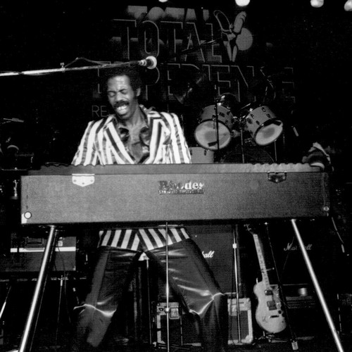 American soul singer Robert "Goodie" Whitfield in Paris, France